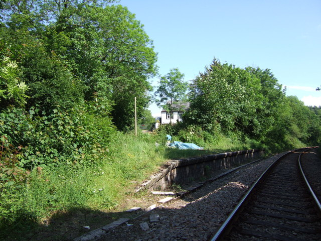 Ford Halt, long gone Small platform and railway employee's dwelling remain long after the halt here at Ford, below Wolf's Castle, was closed, even pre-Beeching. It was used only to load milk churns on to the Fishguard to Clarbeston Road train.